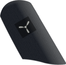 RAF Senior Aircraftman